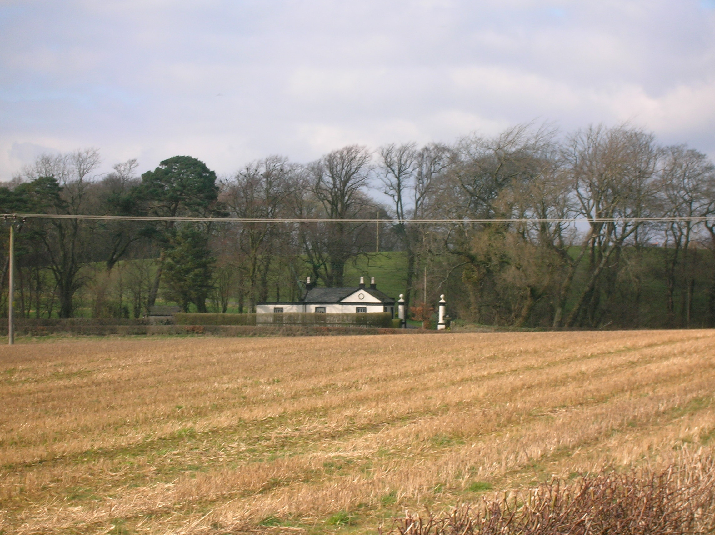 The lodge at the Fairlie estate in South Ayrshire, Scotland. 2007. Taken from near Peatland House.